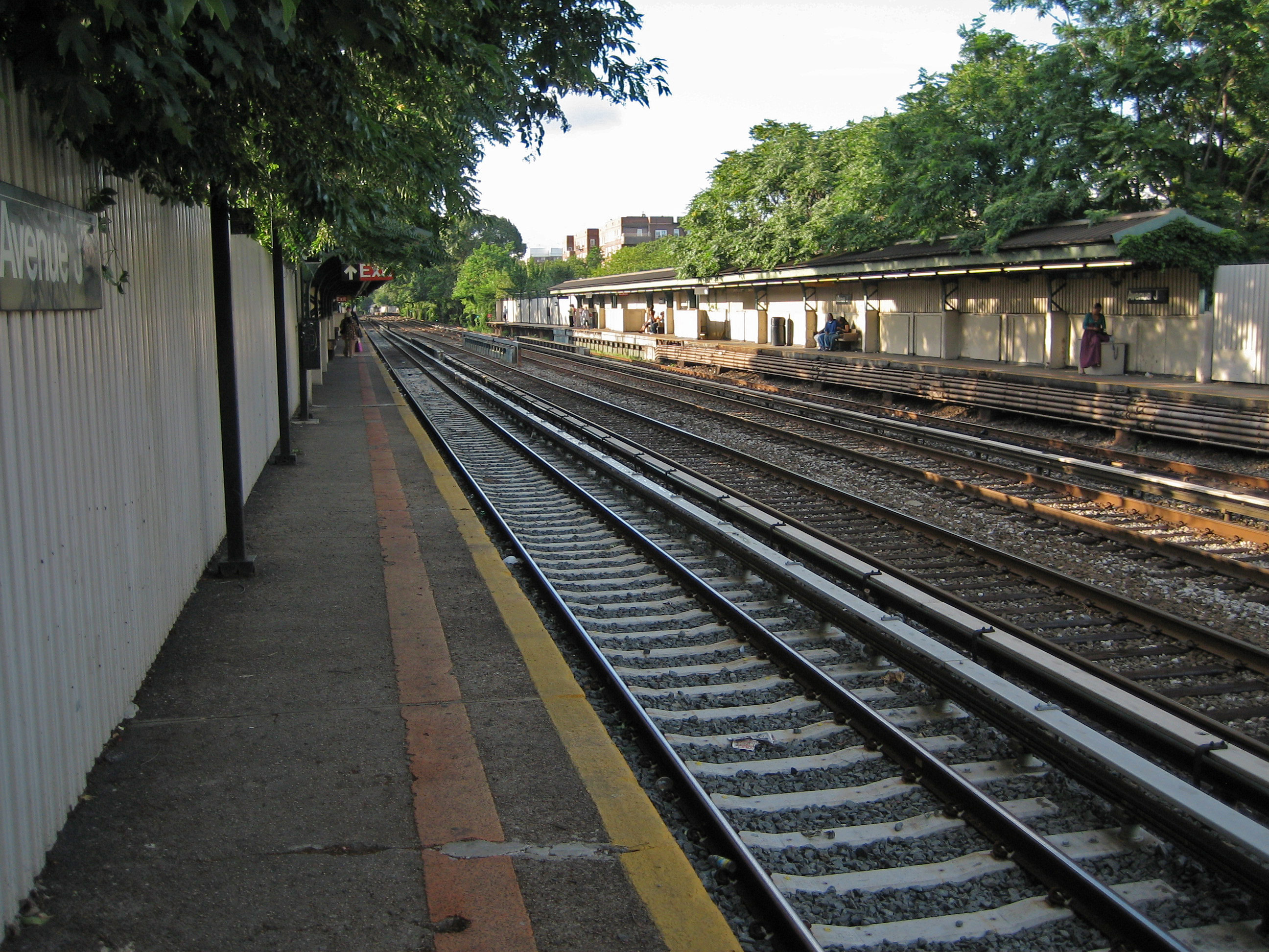 Avenue J station at the BMT Brighton Line, looking north. About one third of this line runs upon an embankment between family houses and gardens. One might feel reminded of an “ordinary” railway line. Indeed, the Brighton Line originates from a steam dummy railroad to Coney Island which was integrated into subway service in 1920.